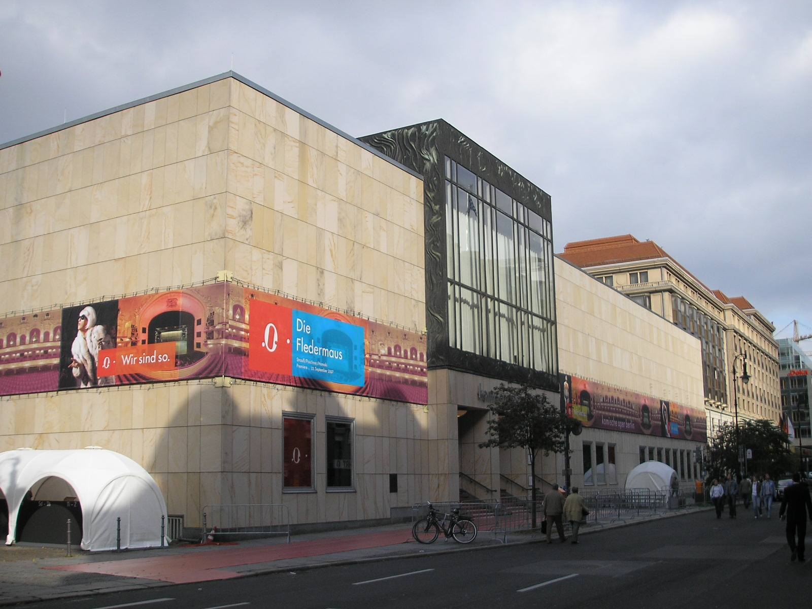 Exterior of the Komische Oper Berlin